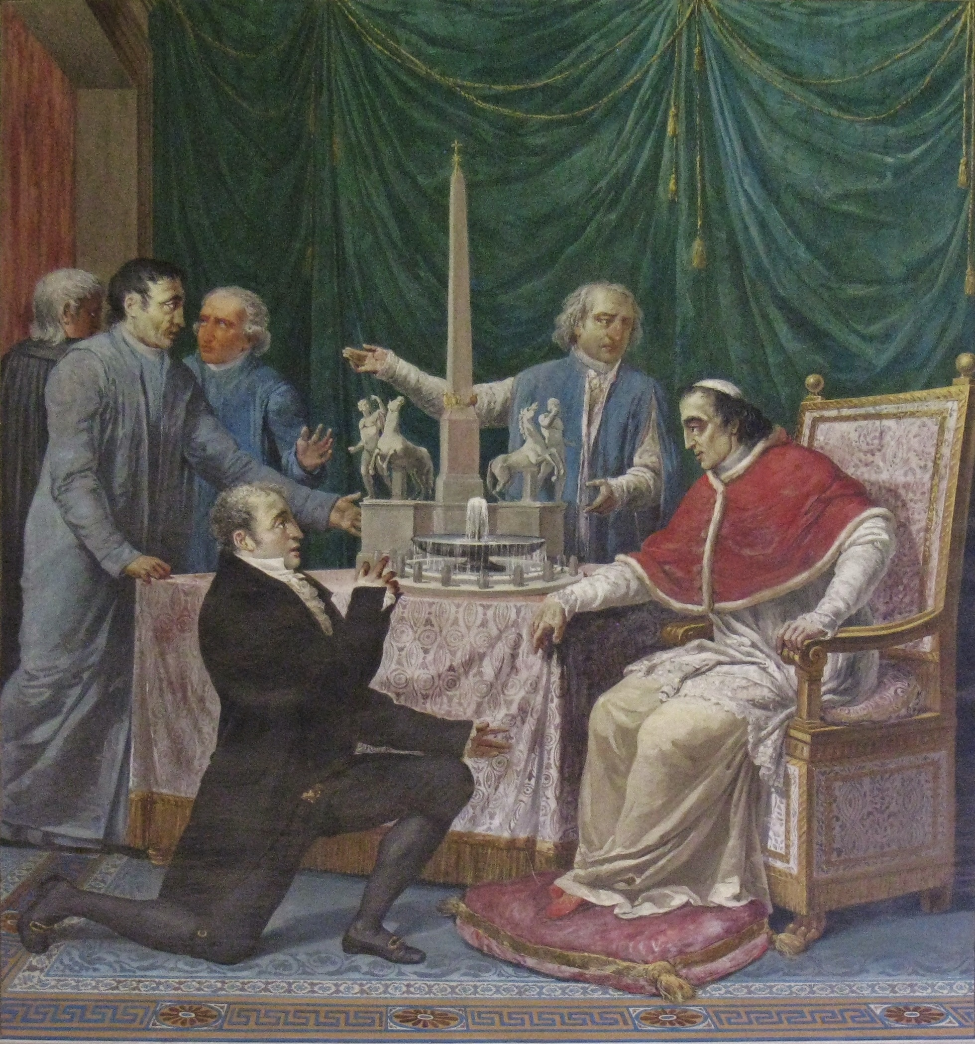 Pie VII examinant une maquette de l'Obélisque